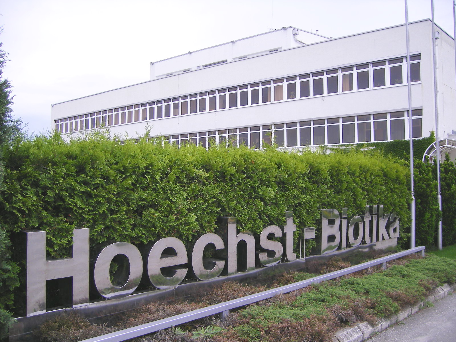 Martin - Hoechst-Biotika factory